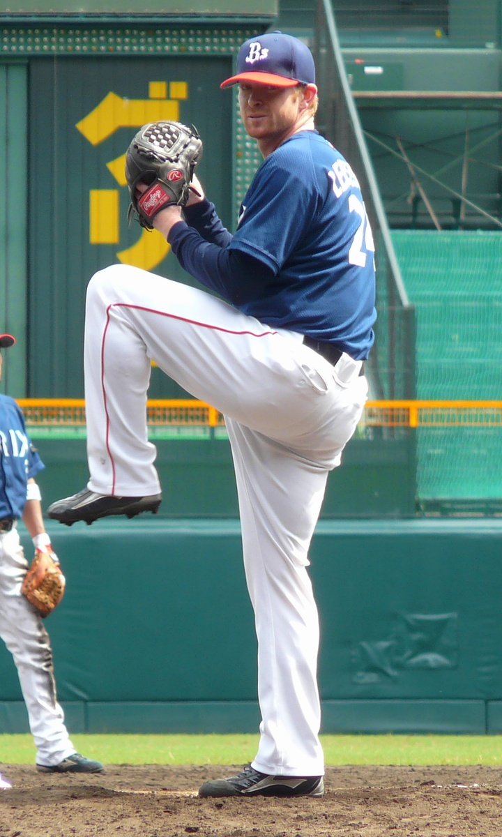 Jon Leicester